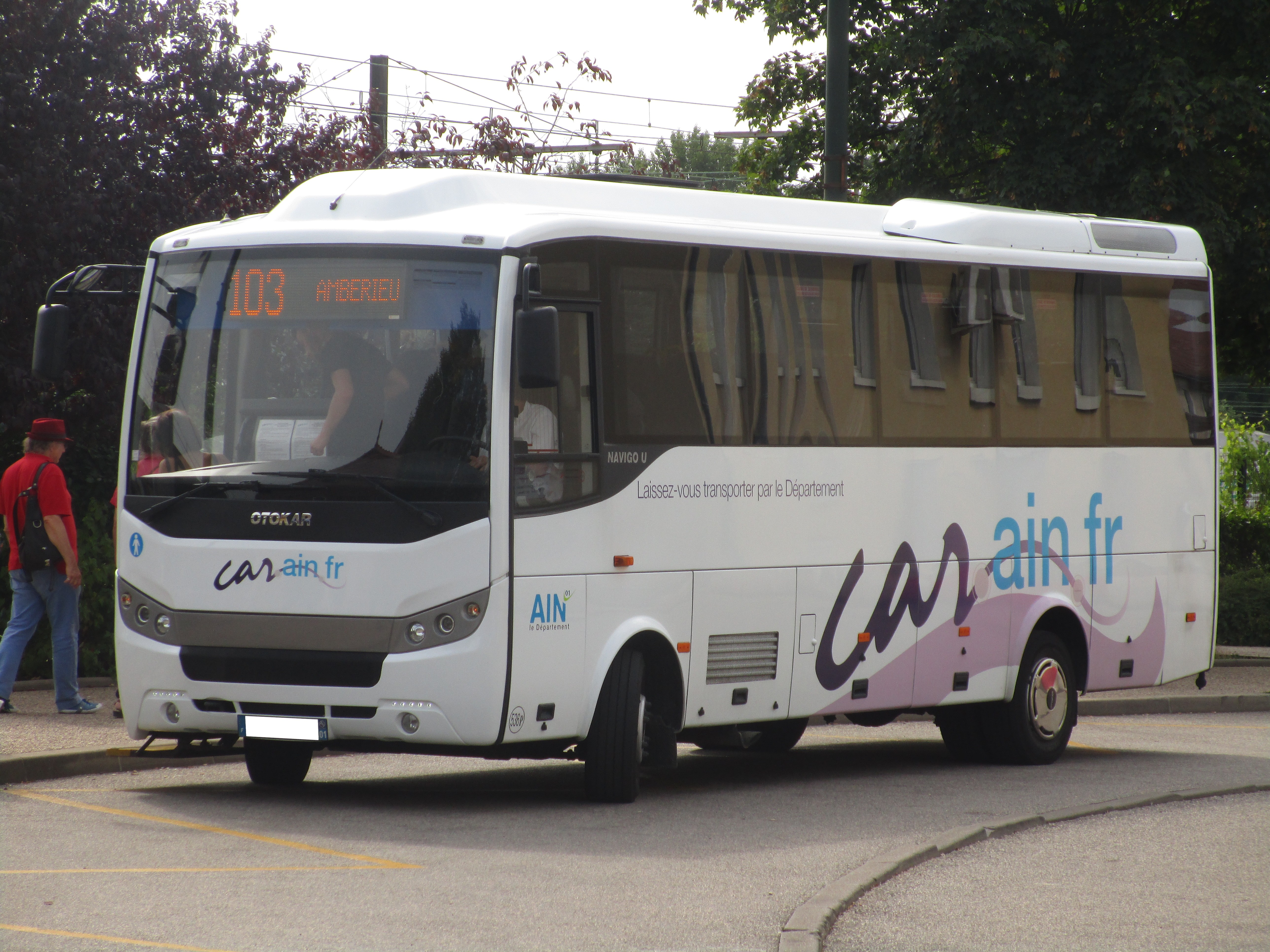 An Otokar Navigo U (n°536P of the RDTA) running on ’s line 103 — Gare SNCF, Ambérieu-en-Bugey↔École, Lagnieu — at the call Gare SNCF (Ambérieu-en-Bugey, France) on August 16, 2017.